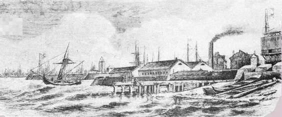 Redout Kale port. An engraving by an unknown author.